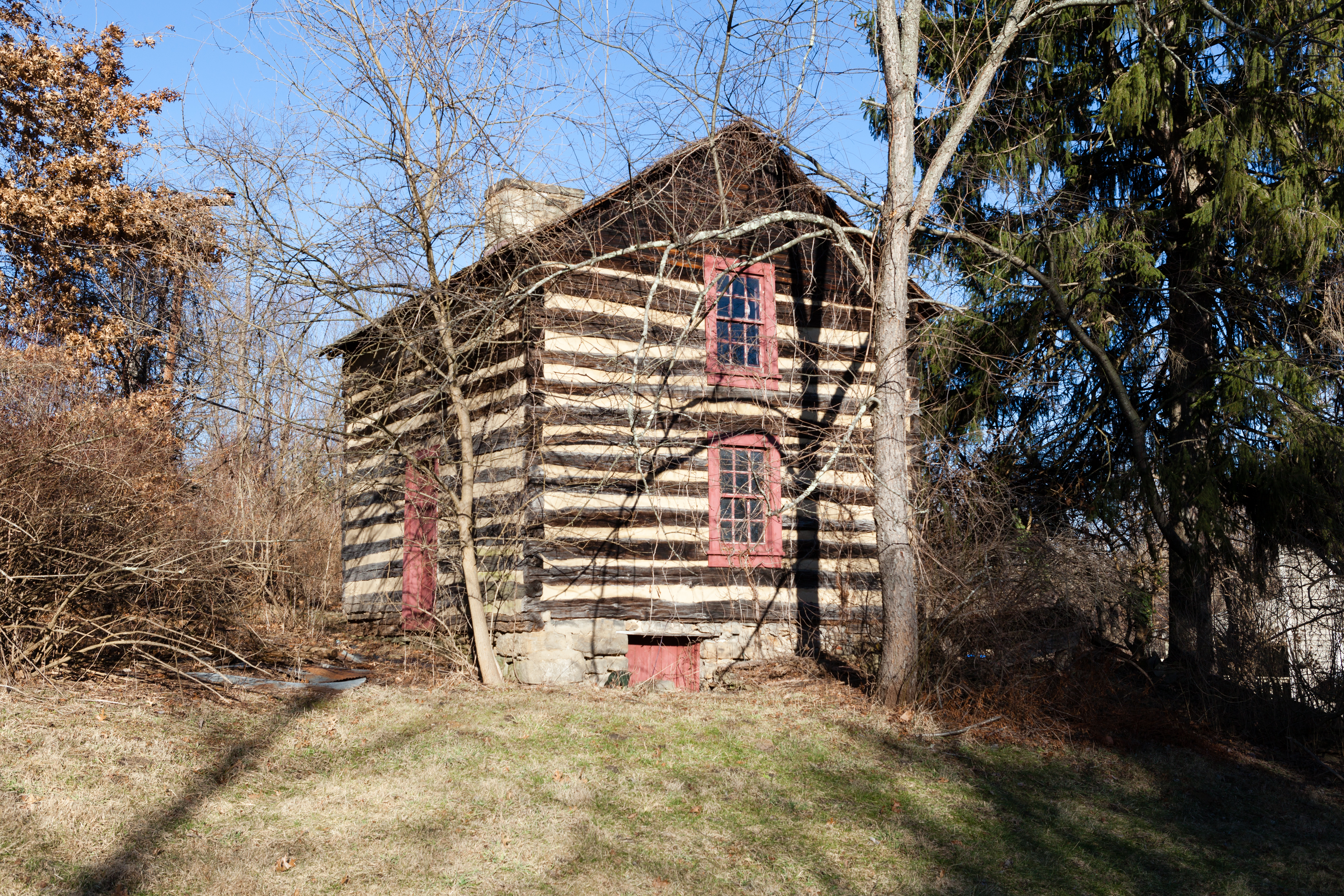 A log house at the location of the Regester Log House. This house is similar to one of the two attached houses documented in the National Register of Historic Places in 1974, but does not match the photo that was part of that document. It may be a reconstruction.